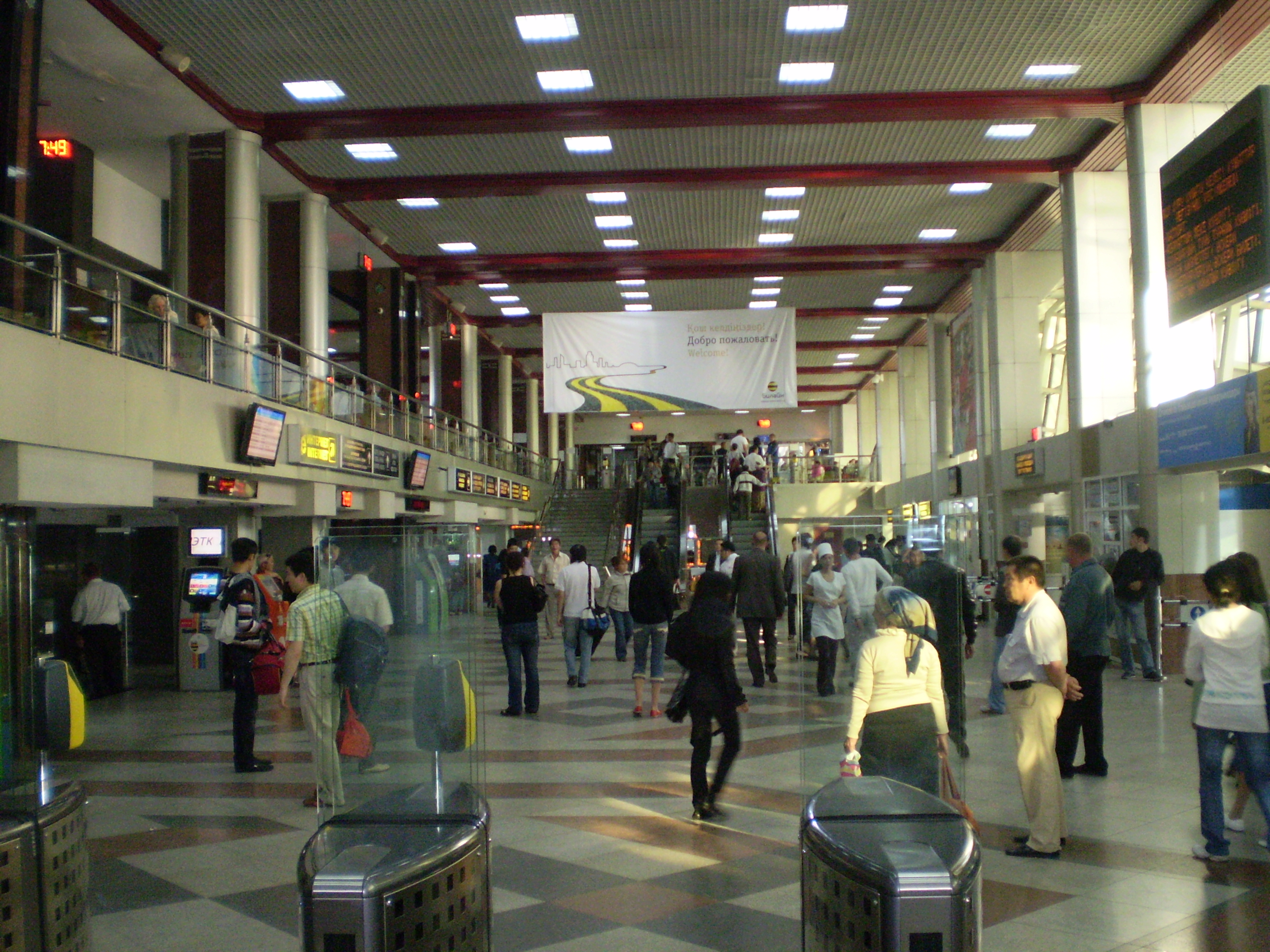 Nur-Sultan train station. Main hall view